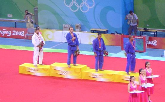 The victory ceremony for the medalists of the Judo men's 90 kg class at the 2008 Summer Olympics. From the left: Amar Benikhlef, Irakli Tsirekidze, Hesham Mesbah, Sergei Aschwanden